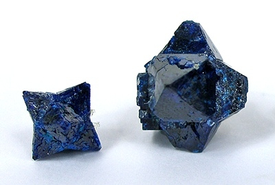 Cumengeite Locality: Amelia Mine, Santa Rosalía (El Boleo), Boleo District, Municipio de Mulegé, Baja California Sur, Mexico (Locality at ) Size: 1.4 x 1.4 x 1.4 cm (largest). The larger specimen here is 1.4 cm across, and is a classic, sharp, symmetrical cumengeite of high value. The piece dates to older material found at the turn of the 1900s. The smaller specimen next to it is from recent finds (recent meaning in the Larson/Swoboda workings of 1973-1974), and is sharp and fine...but as you can see a bit different in habit from the older material. Either one, in this size, is rare on the market. This specimen from the Dr Miguel Romero collection was on loan exhibition to the University of Arizona Museum for over a decade, until my purchase of this collection in 2008. It was on display in special cases at the museum, and has since been featured in the book "The Miguel Romero Collection of Mexico Minerals" which we sponsored as a special supplement book (published by the Mineralogical Record in December of 2008).